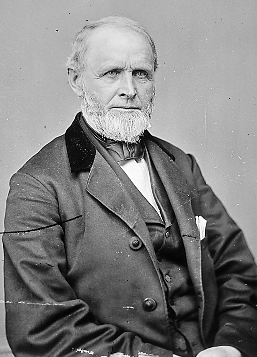 Jesse Lazear, US Representative from Pennsylvania